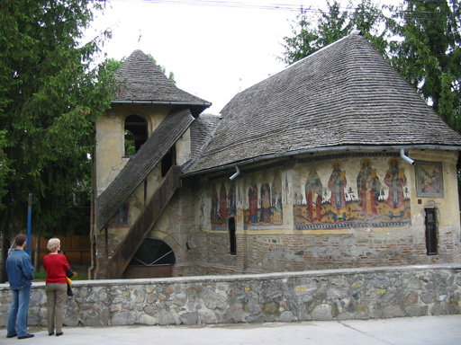 Thatched church with external wall paintings: Olari, Curtea de Argeş, Romania.